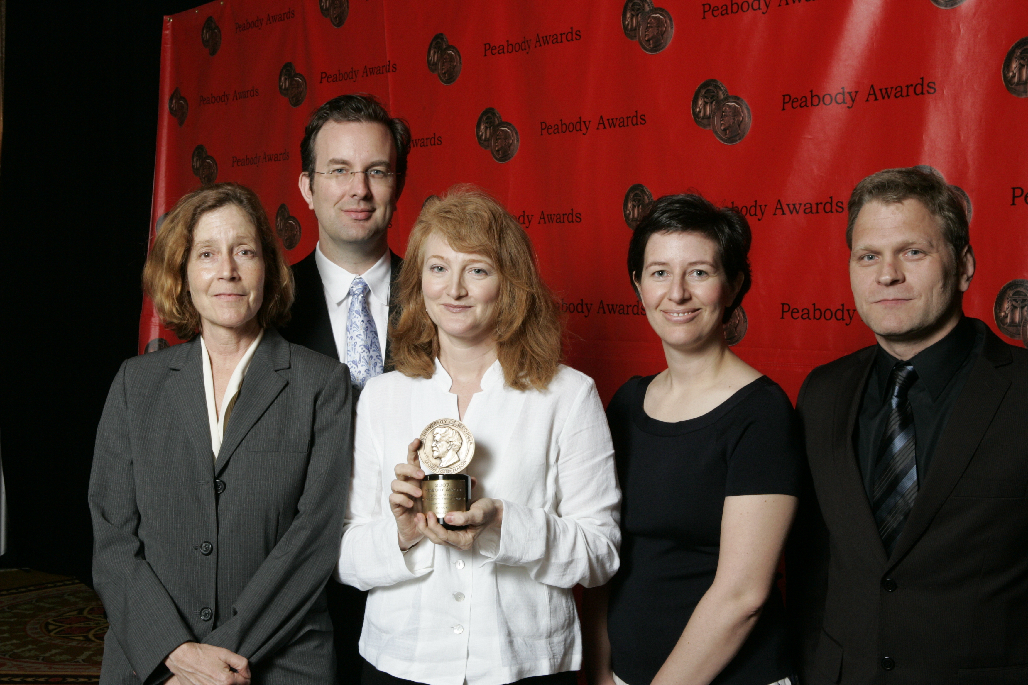 Kate Moos, Krista Trippett, Mitch Hanely, Colleen Scheck, and Trent Gilliss 67th Annual Peabody Awards Luncheon Waldorf=Astoria Hotel New York, NY USA June 16, 2008